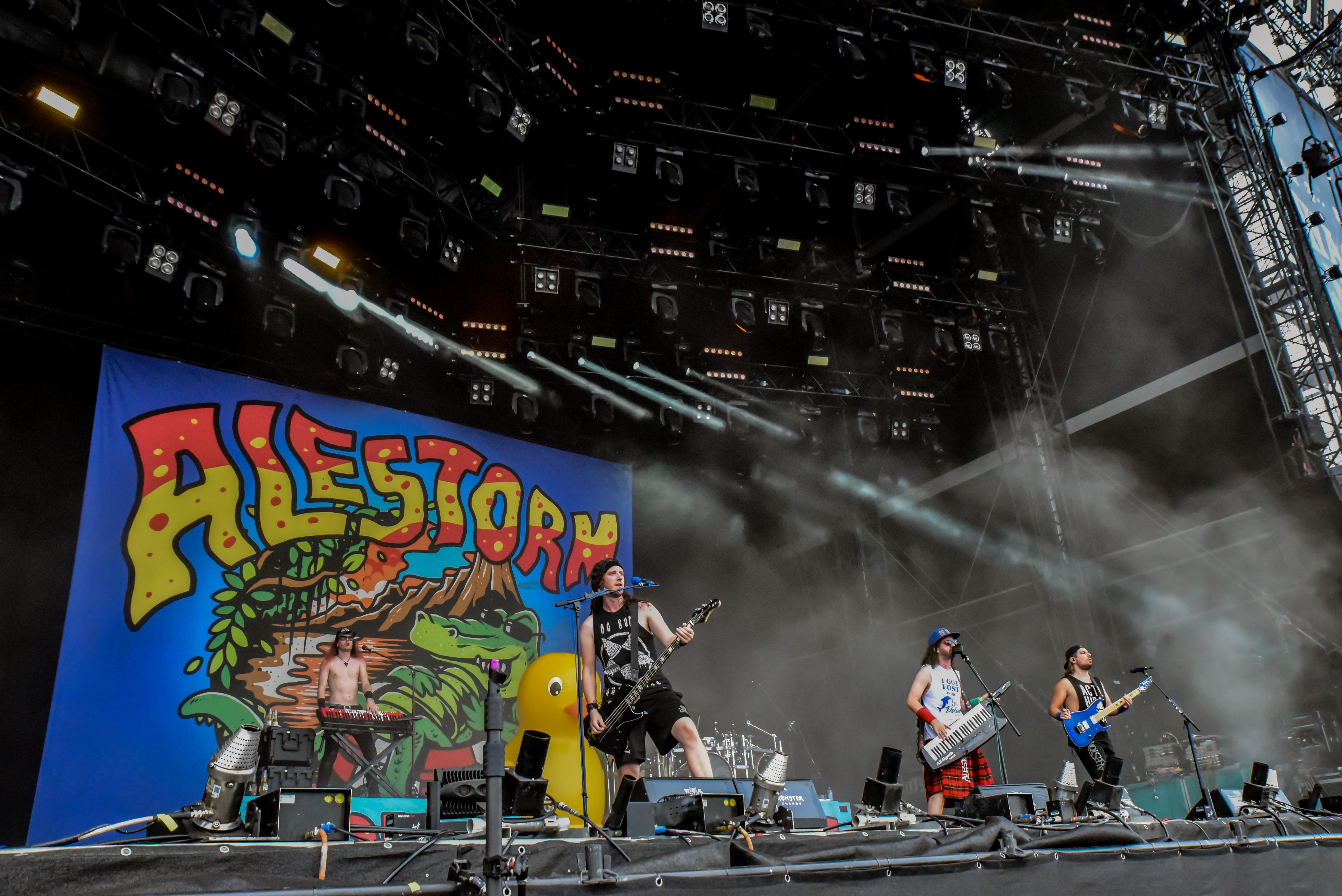 Alestorm - Wacken Open Air 2018